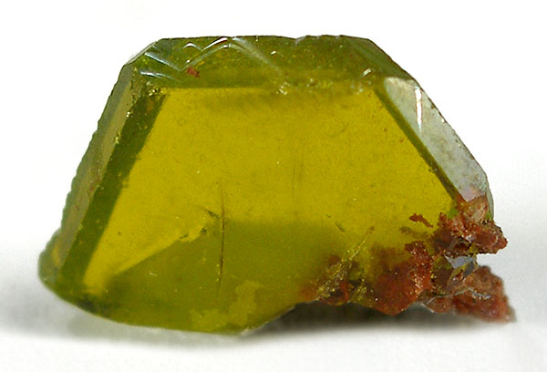 Despujolsite Locality: N'Chwaning III Mine, N'Chwaning Mines, Kuruman, Kalahari manganese fields, Northern Cape Province, South Africa (Locality at ) A remarkable flattened crystal showing a hexagonal form and finely serrated edges. Note that these are spectrum sensitive and the photos show the piece under both halogen (moss green color) and under fluorescent (brighter apple-green color) lighting. Collected in the summer of 2010. Analyzed by Dr. Robert Downs at the University of Arizona. 0.7 x 0.3 x 0.2 cm.